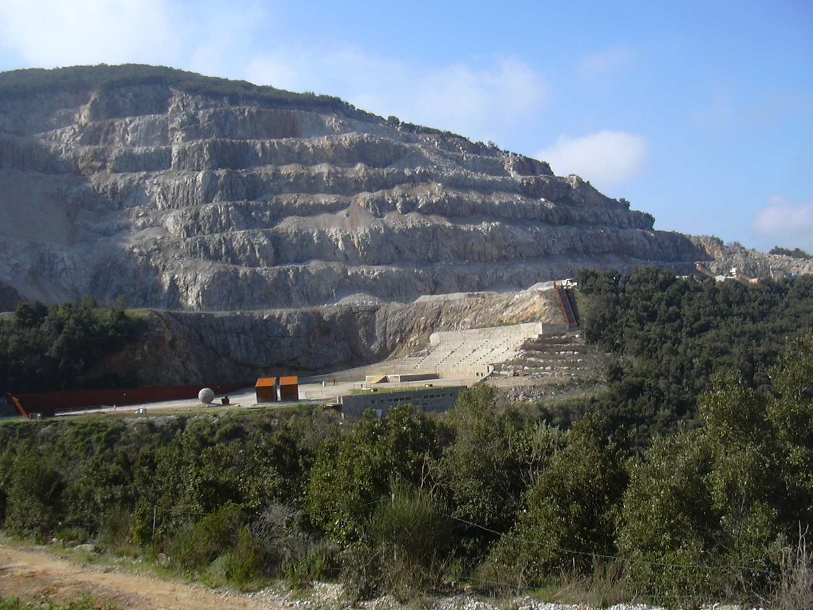 Gavorrano/Tuscany, open-air theatre in abandonned mine